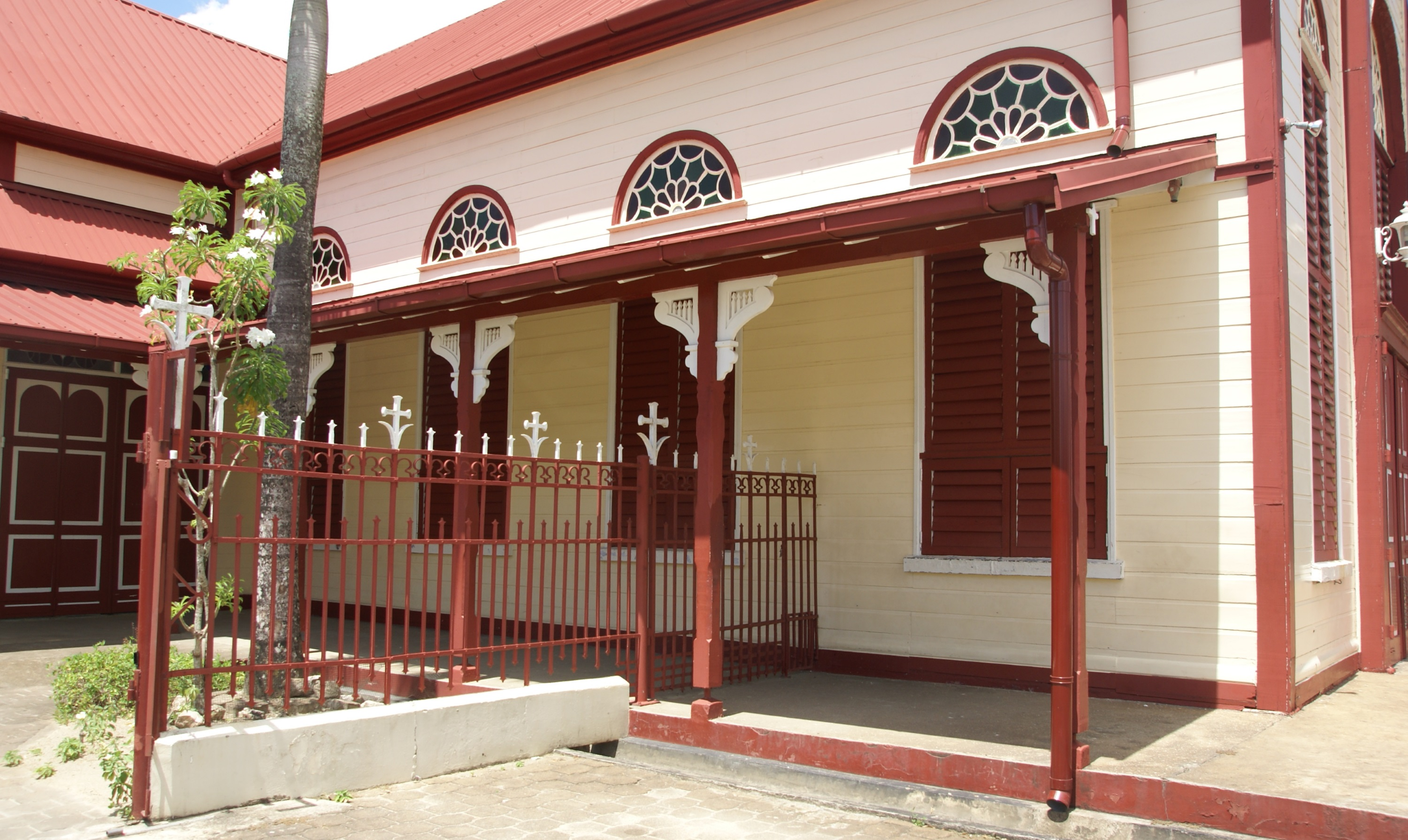 Sint-Alfonsuskerk, Verlengde Keizerstraat 65, Paramaribo, Surinam. Gallery.